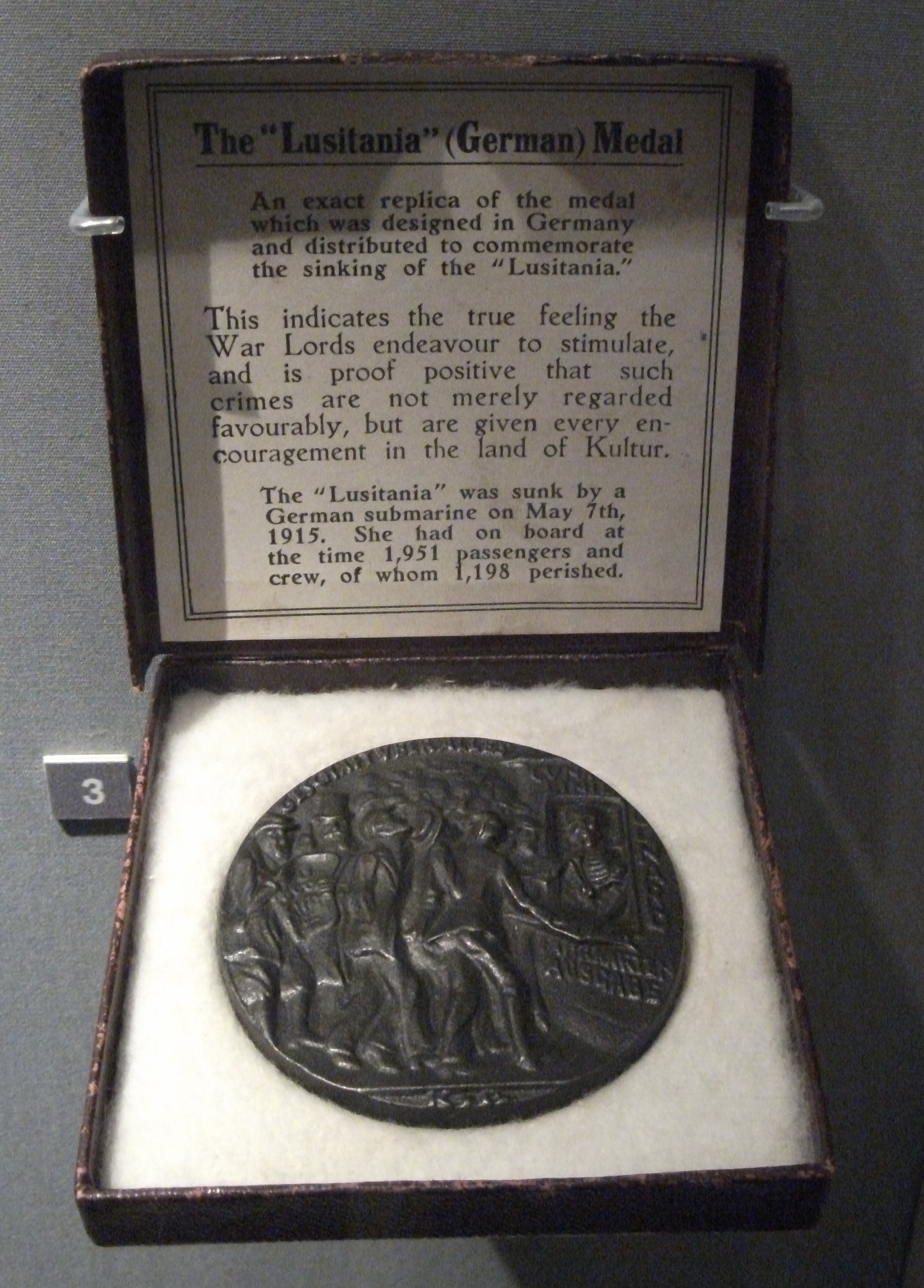 British Museum exhibition: "The other side of the medal: how Germany saw the First World War", 9 May – 23 November 2014